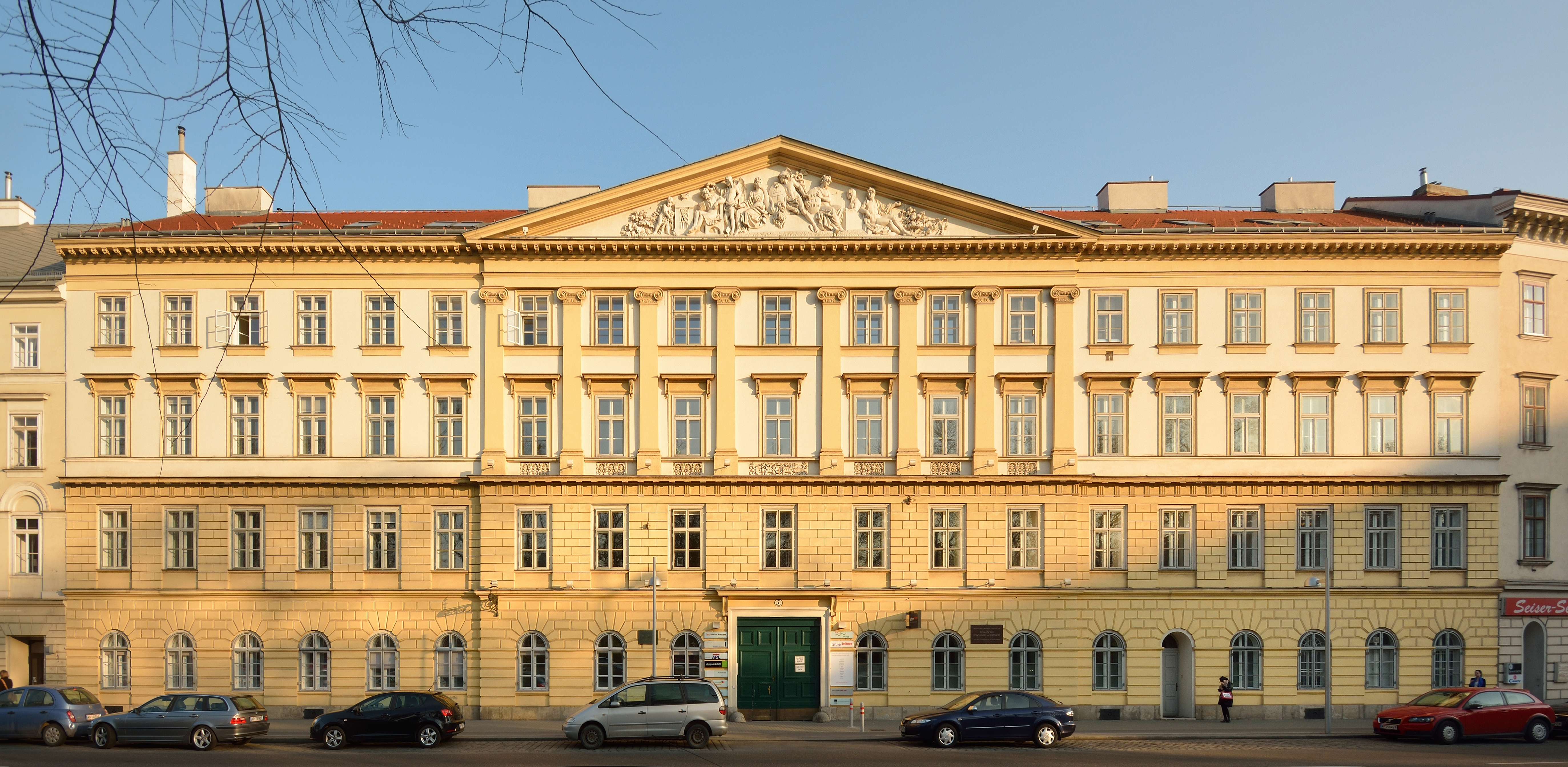 Am Heumarkt 7, 3rd district of Vienna